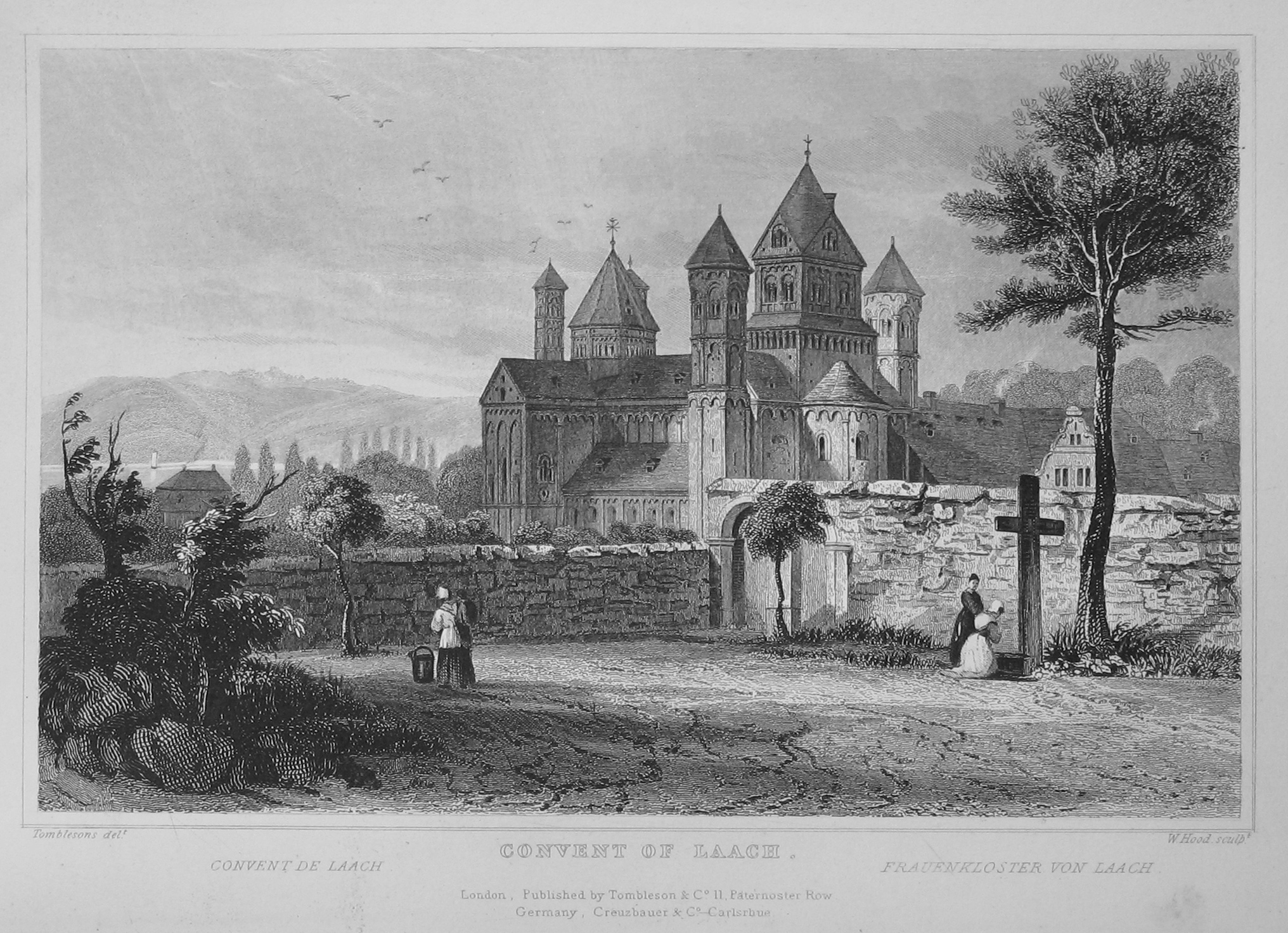 Steel engraving from "Views of the Rhine" by William Tombleson (around 1840): Convent of Laach